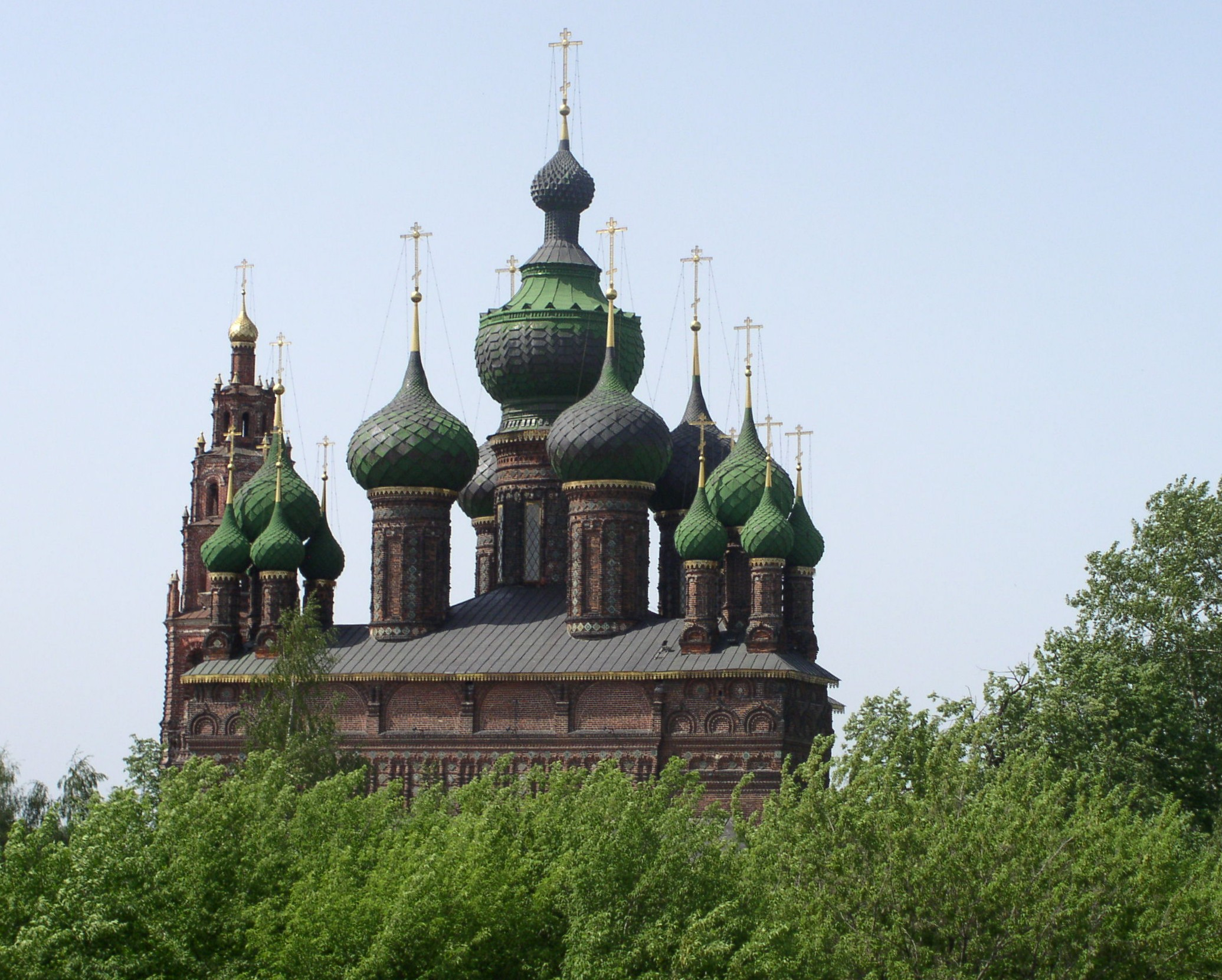 St John the Baptist church in Yaroslavl, Russia